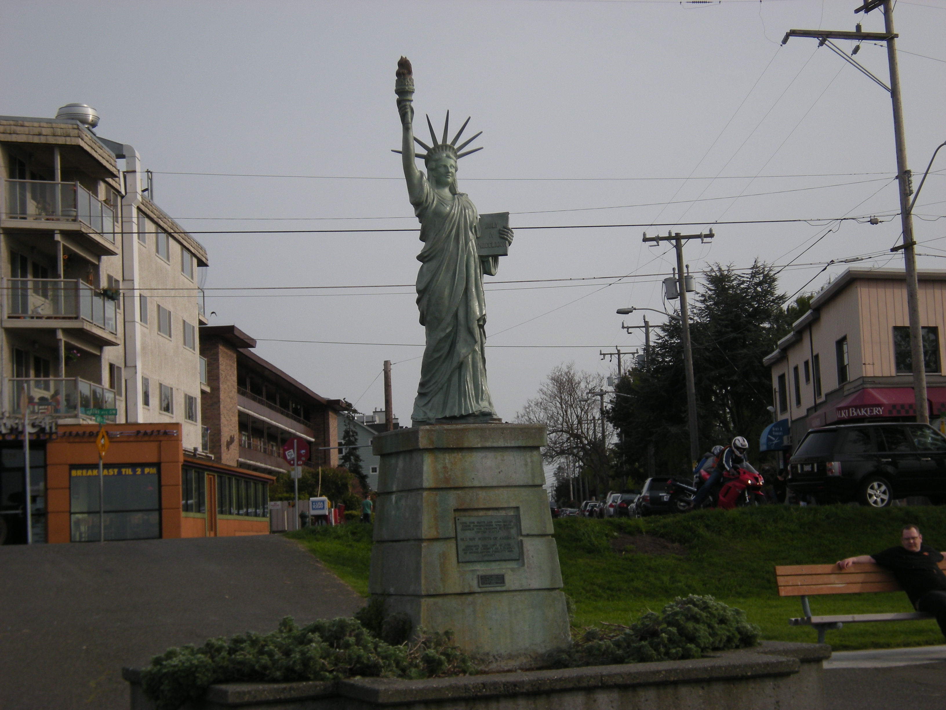 Small replica of the Statue of Liberty on Alki Beach, Seattle, Washington, U.S. near the site of the landing of the Denny Party, generally considered the founders of Seattle. The current statue, erected September 2007 is in bronze. It is a replica of a statue erected 1952 on this site; that one was plaster sheathed in copper.